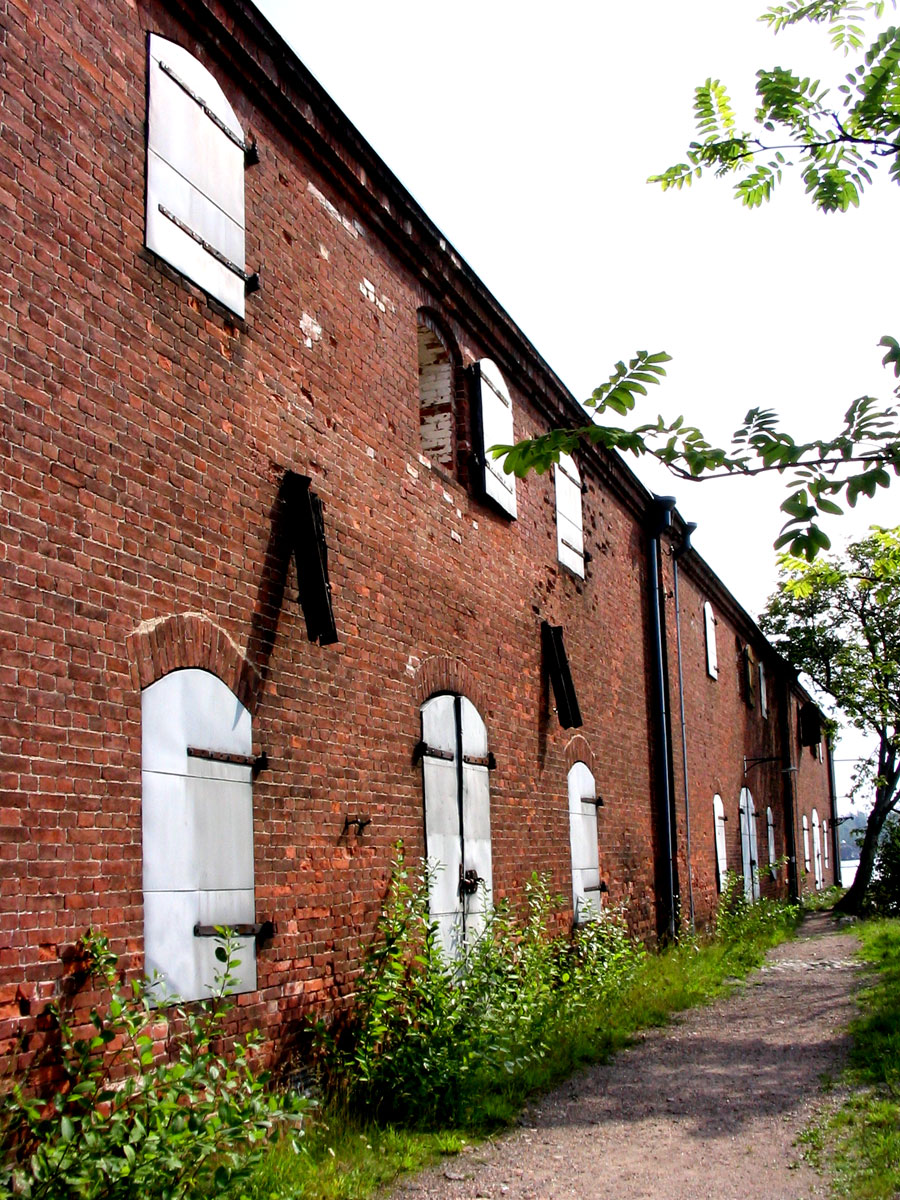 Suomenlinna